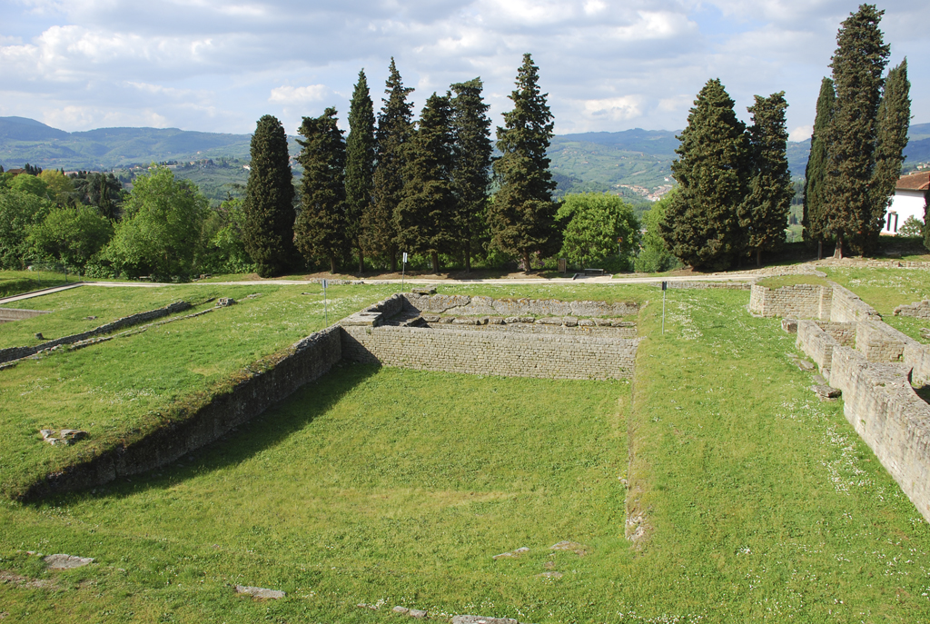 Fiesole archaeological site, Florence, Italy. Thermae.